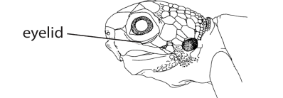 Standard Event System character depiction